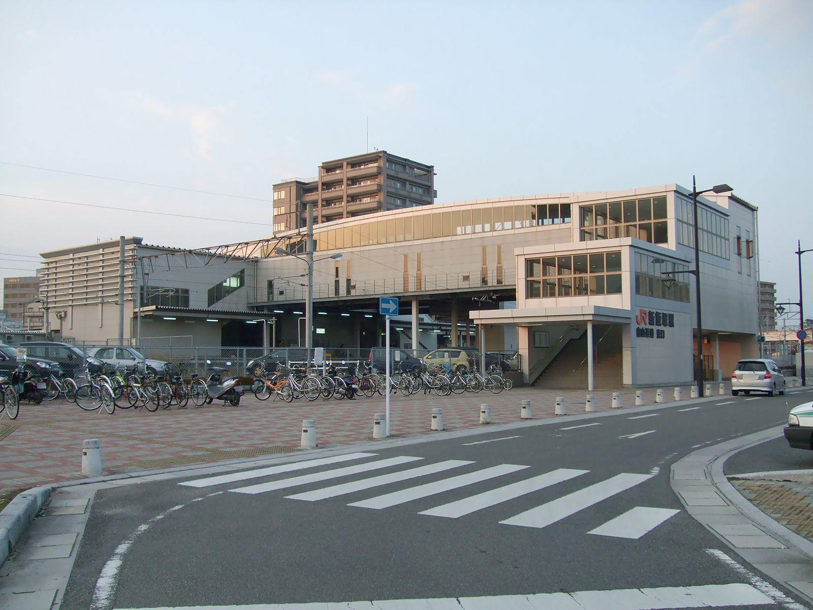 Kyushu Railway Company Shin-Iizuka Station East Entrance